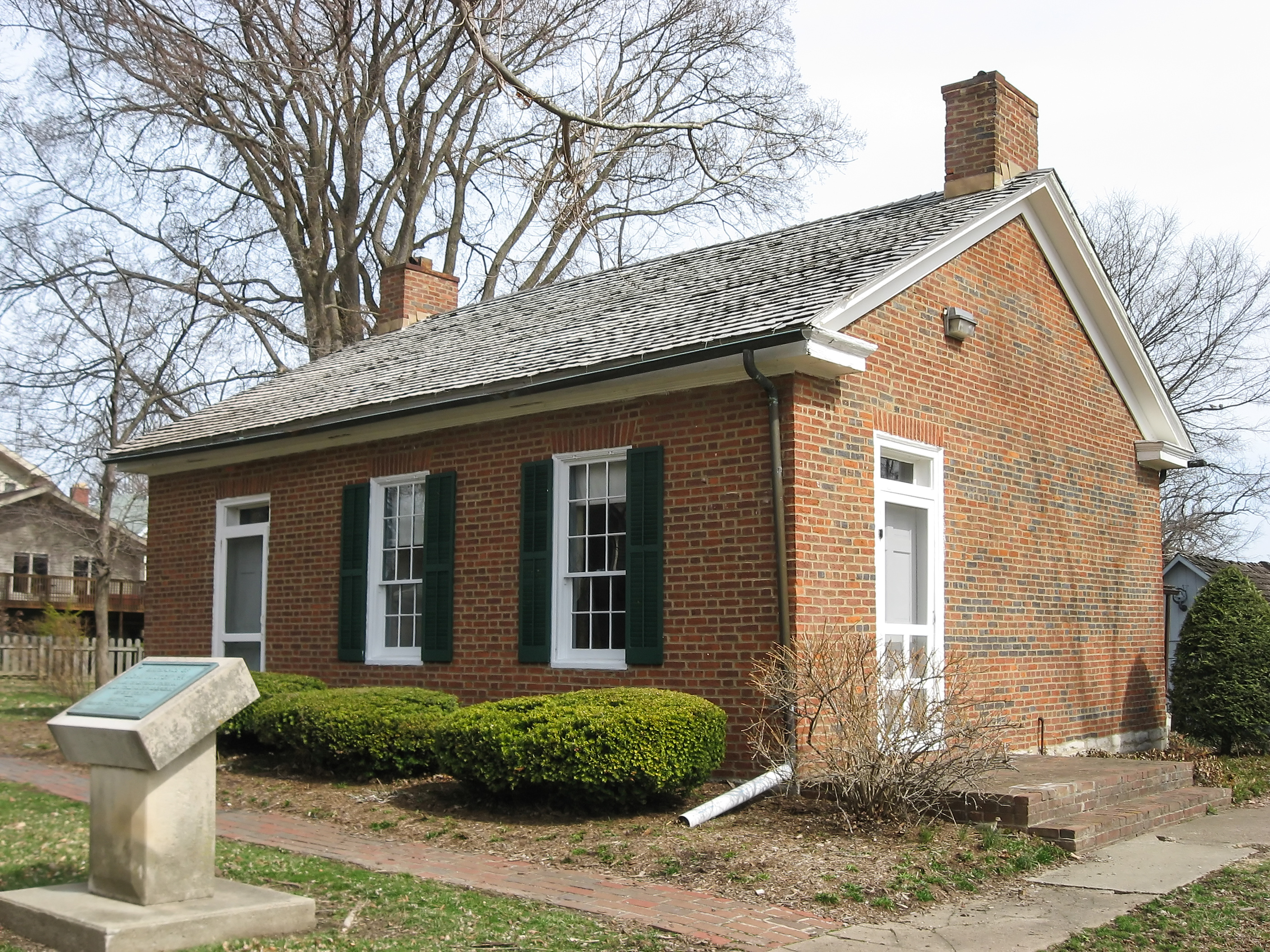 Front and southern end of the Hay-Morrison House, located at 106 S. College Avenue in Salem, Indiana, United States. Built in 1824 and the home of John Hay, it is listed on the National Register of Historic Places.